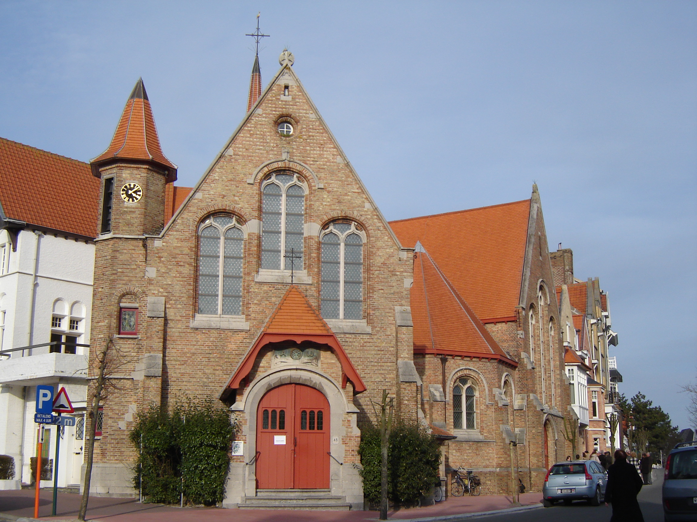 Chapel of Christ the King in Duinbergen. Duinbergen, Knokke-Heist, West Flanders, Belgium